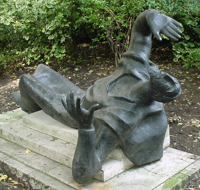 Sculpture Of Becket-St Pauls Cathedral-London